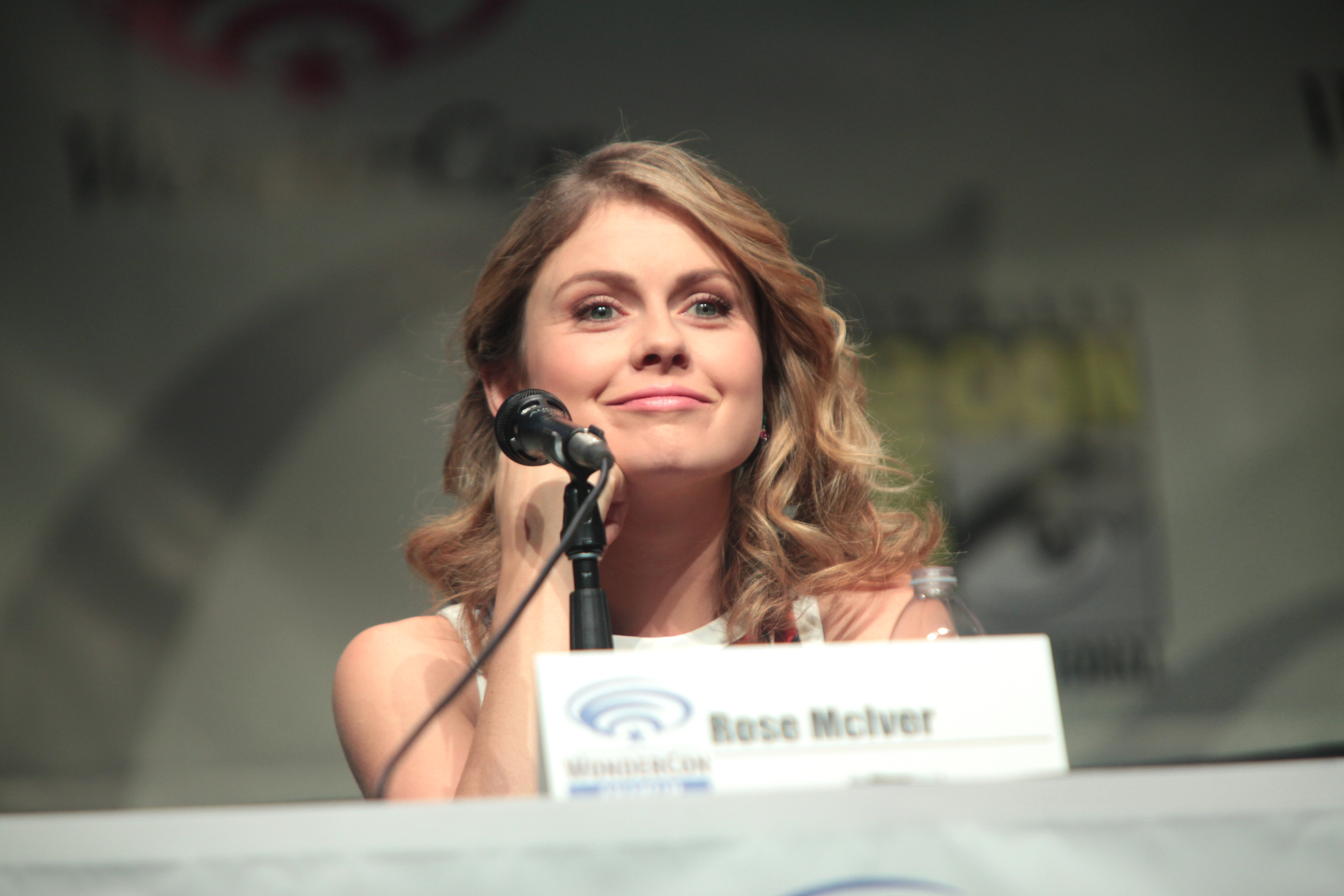 Rose McIver speaking at the 2015 Wondercon, for "iZombie", at the Anaheim Convention Center in Anaheim, California.